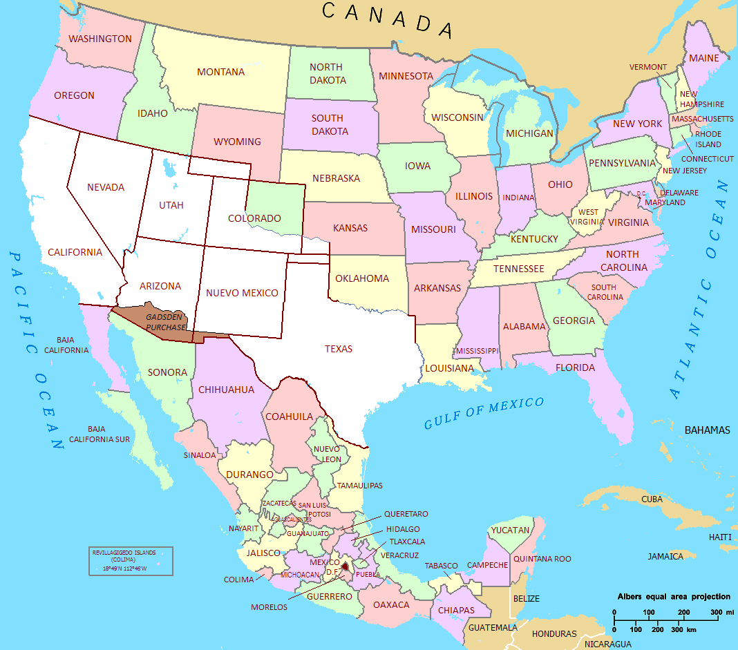 Mexican Cession in Mexican View